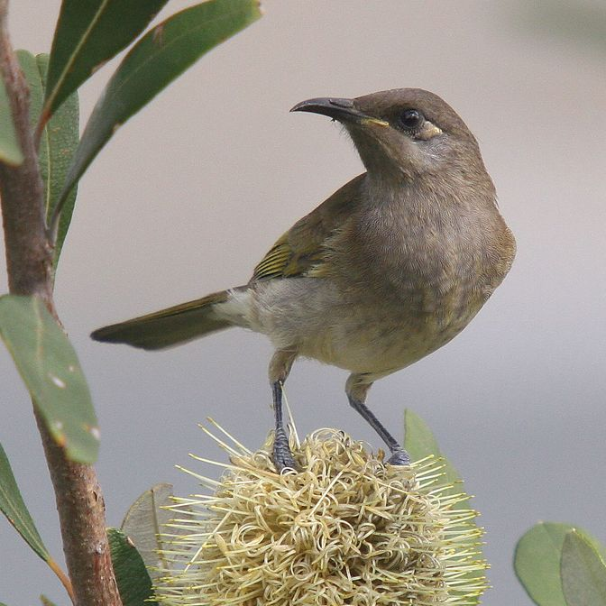 Brown Honeyeater standing on a Banksia flower